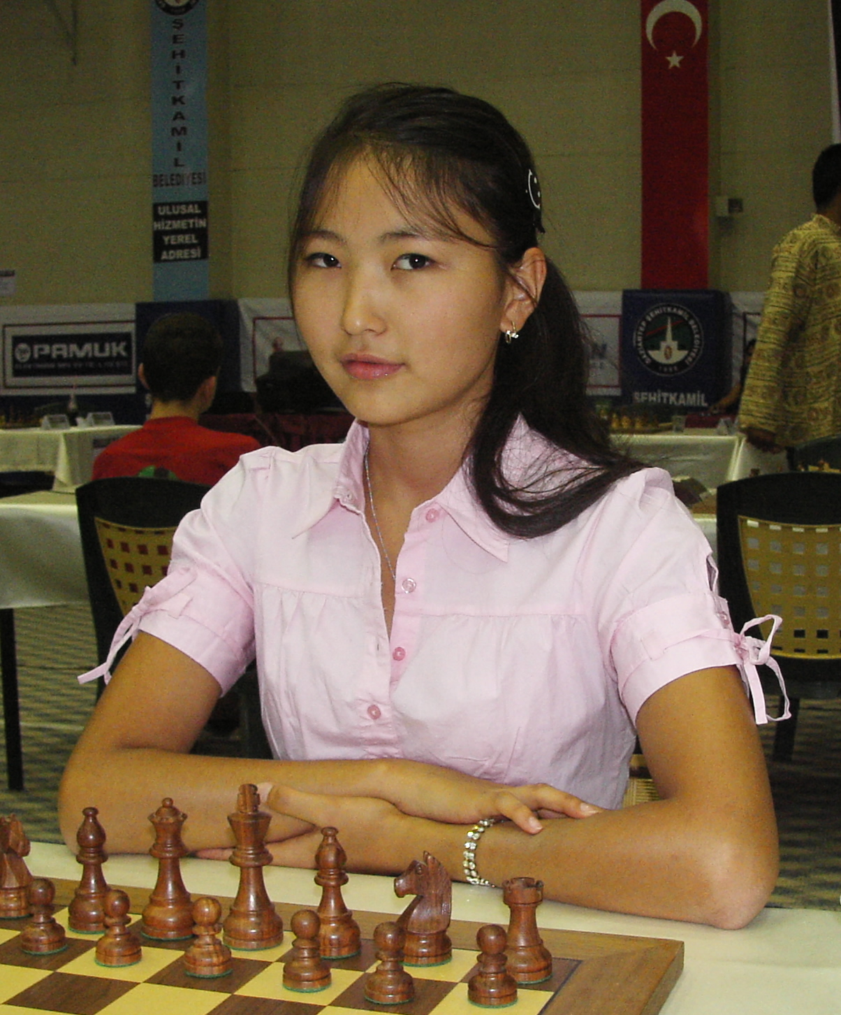 Guliskhan Nakhbayeva Kazakhstan, at the 2008 World Junior Chess Championship in Gaziantep, Turkey.